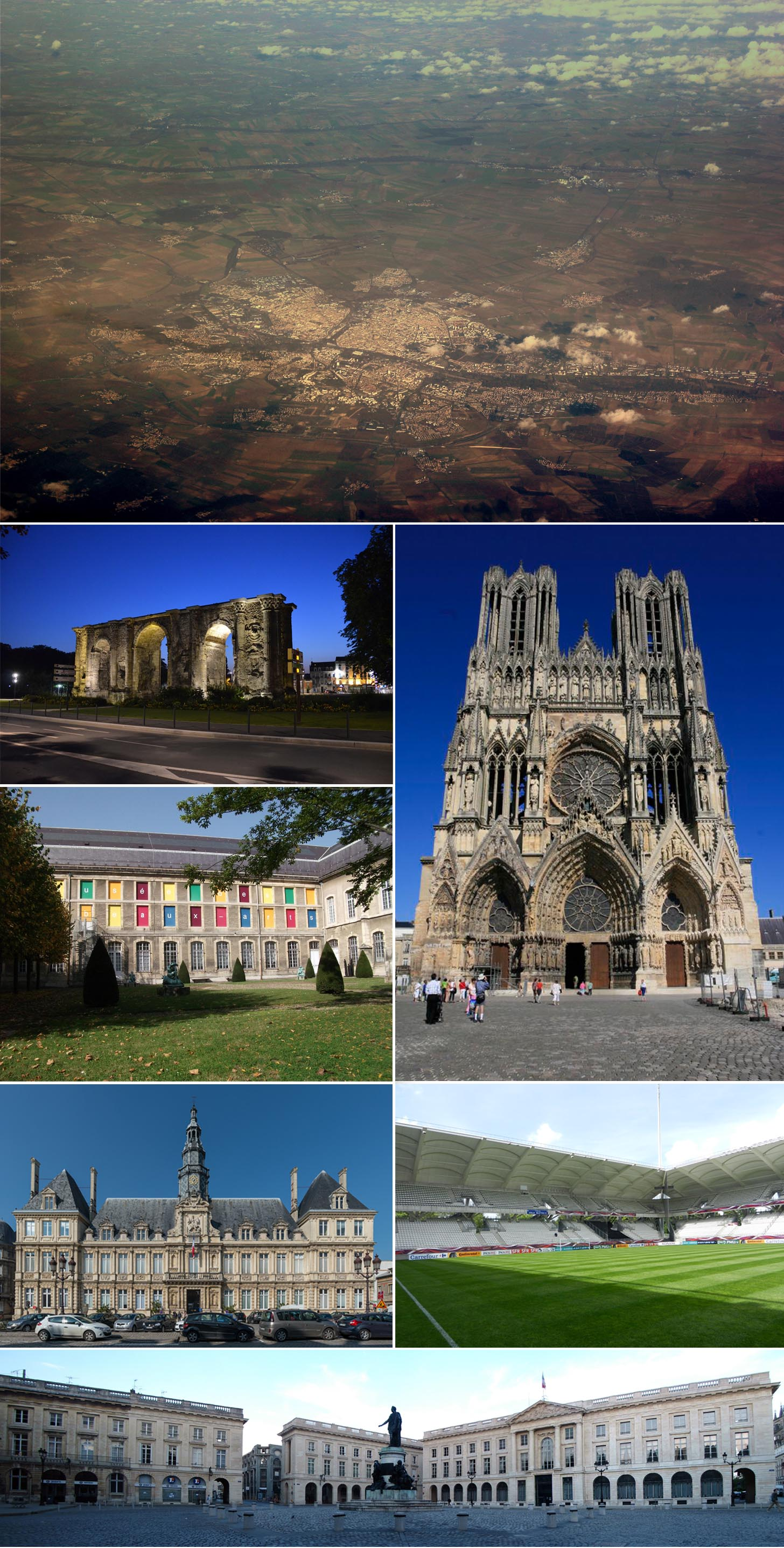 Collage Reims